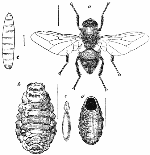 Ox Warble-fly (Hypoderma bovis), magnified (lines show natural size)) a, female b, full-grown maggot from back of ox, dorsal view c, egg d, empty puparium, ventral view e, young maggot from gullet, ventral view